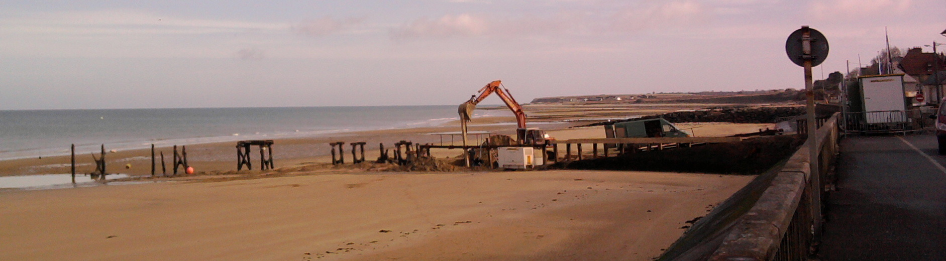 RECONSTRUCTION EPI